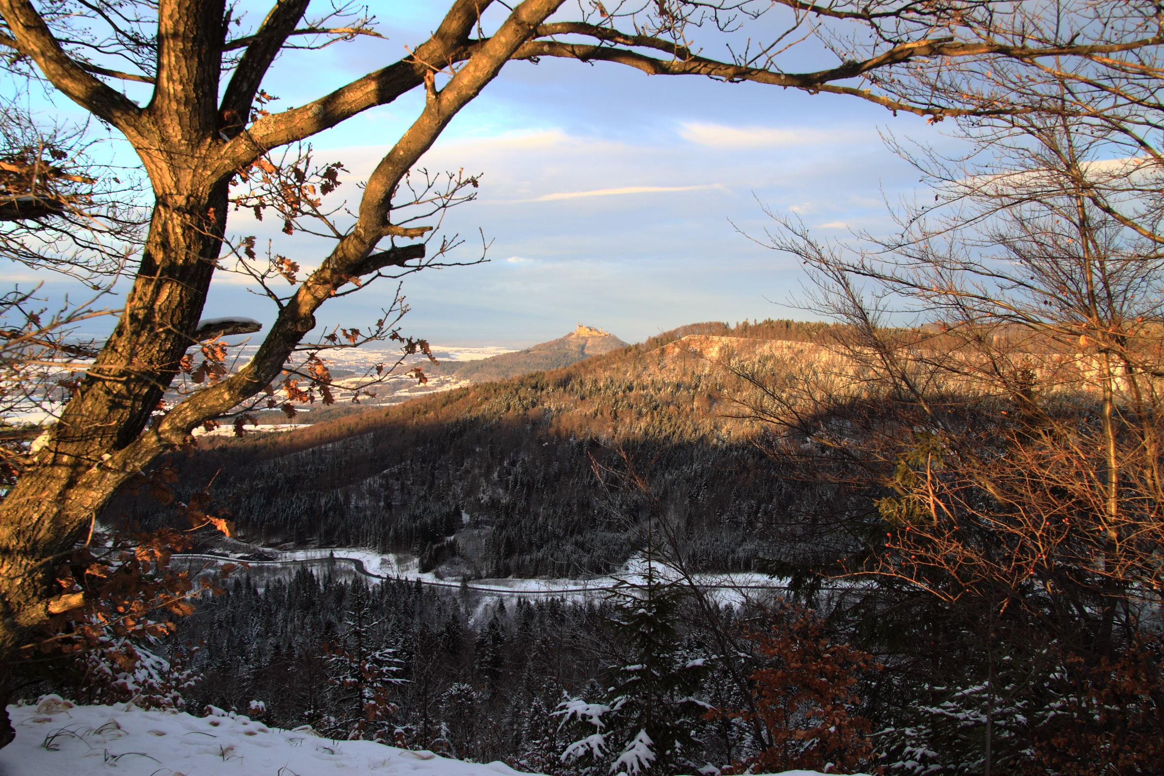 Albtrauf (Swabian Jura) near Hohenzollern Castle - view towards east